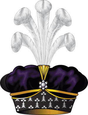 Count of Empire / hrabia ceserstwa